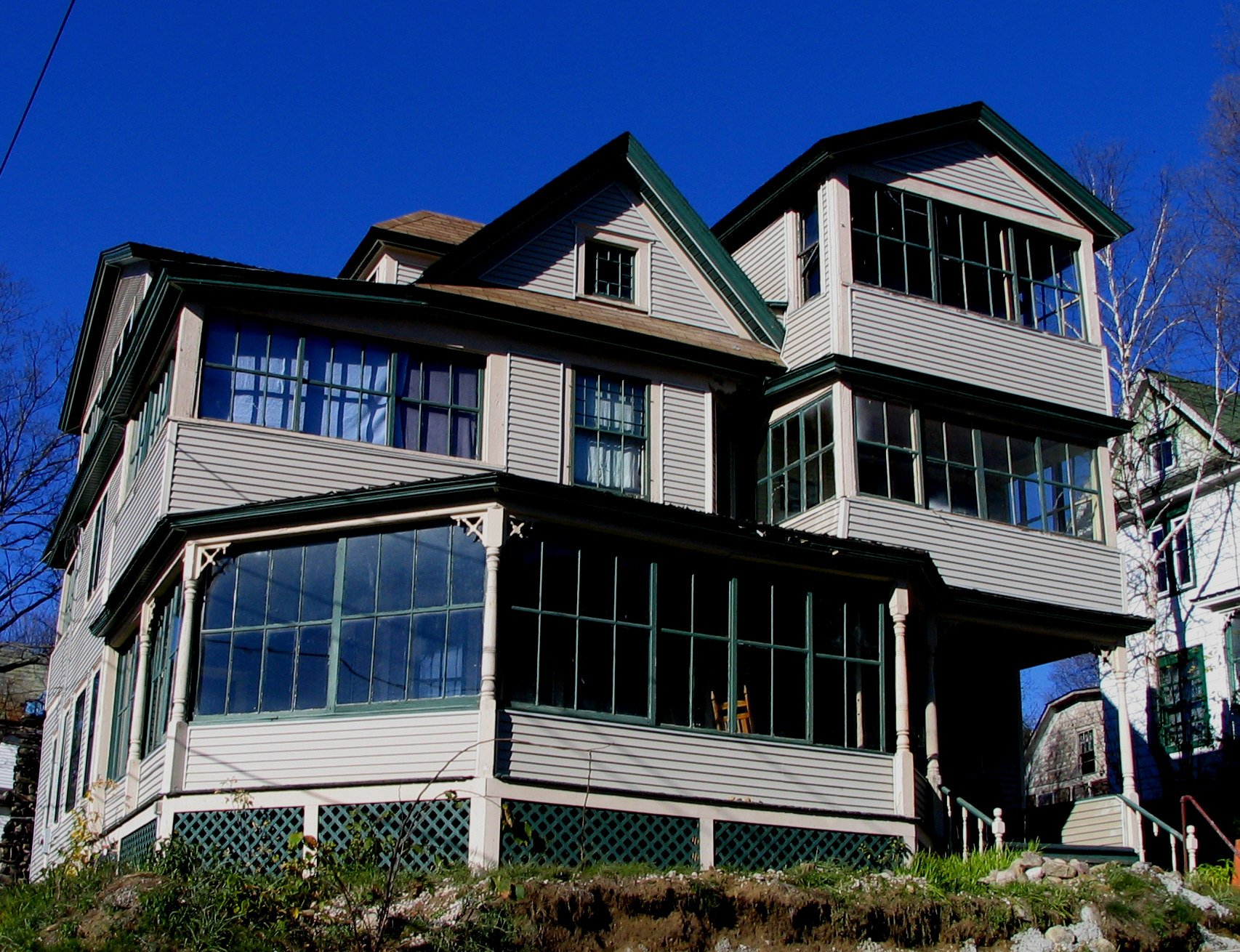 A "Cure Cottage" (for Tuberculosis) in Saranac Lake, New York. Taken by User:Mwanner, 2 November, 2007.